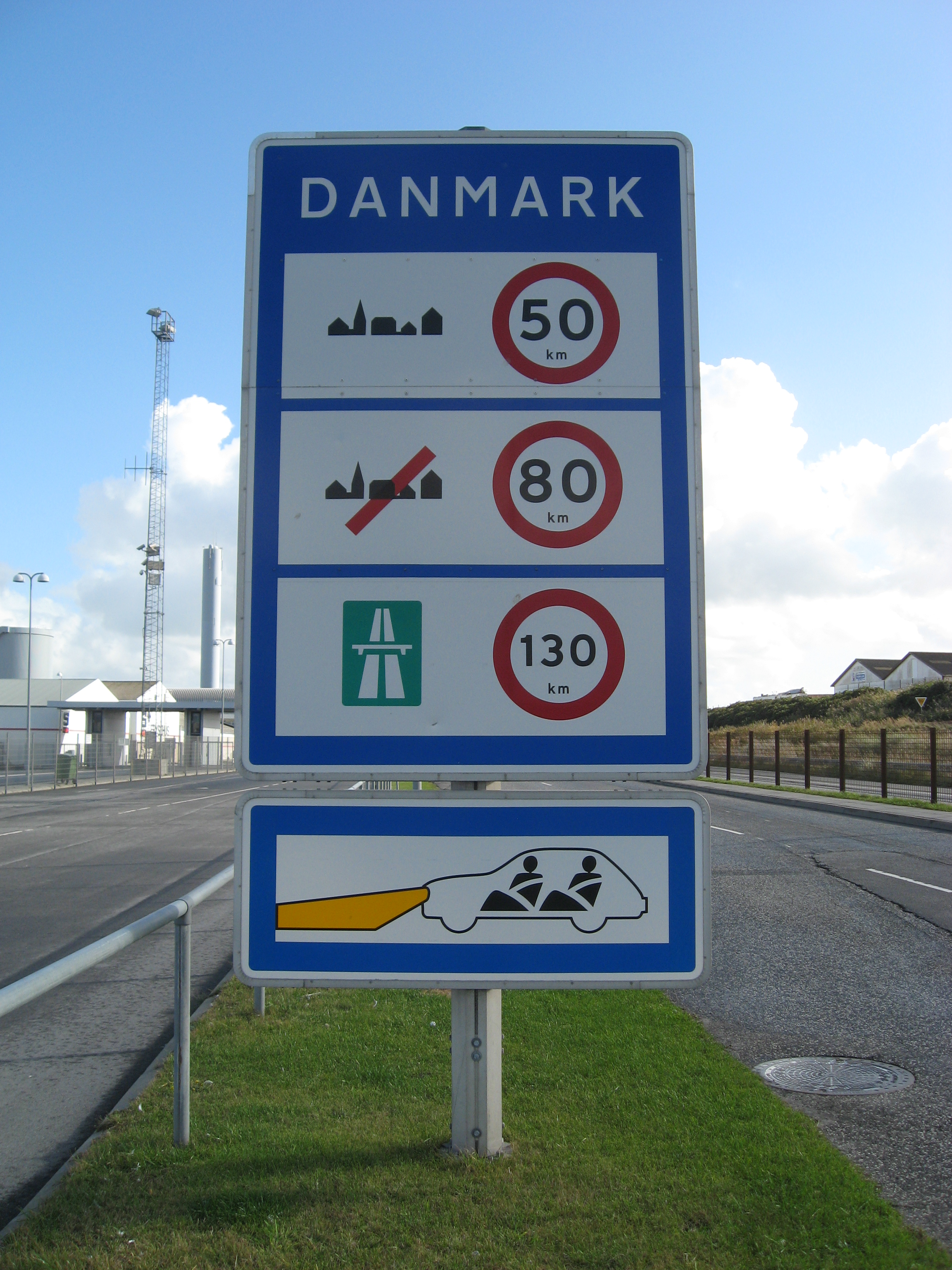 Speed limits in Denmark